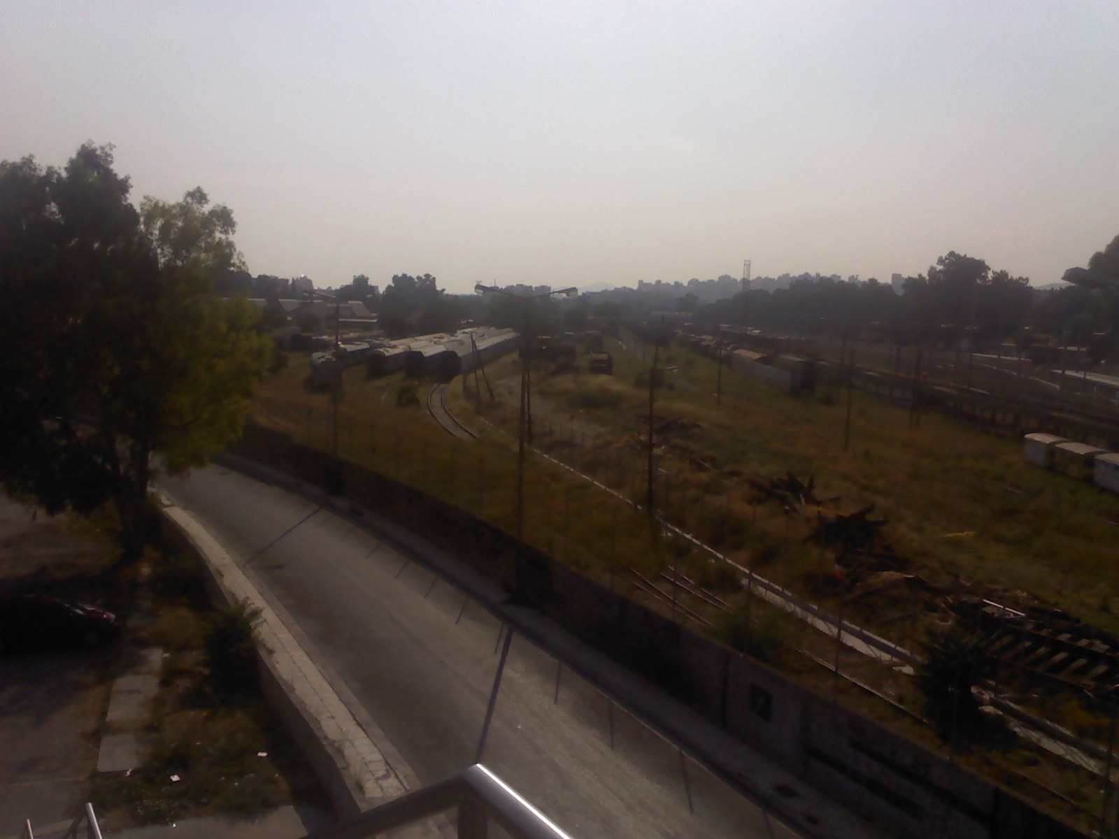 Ose station Renti